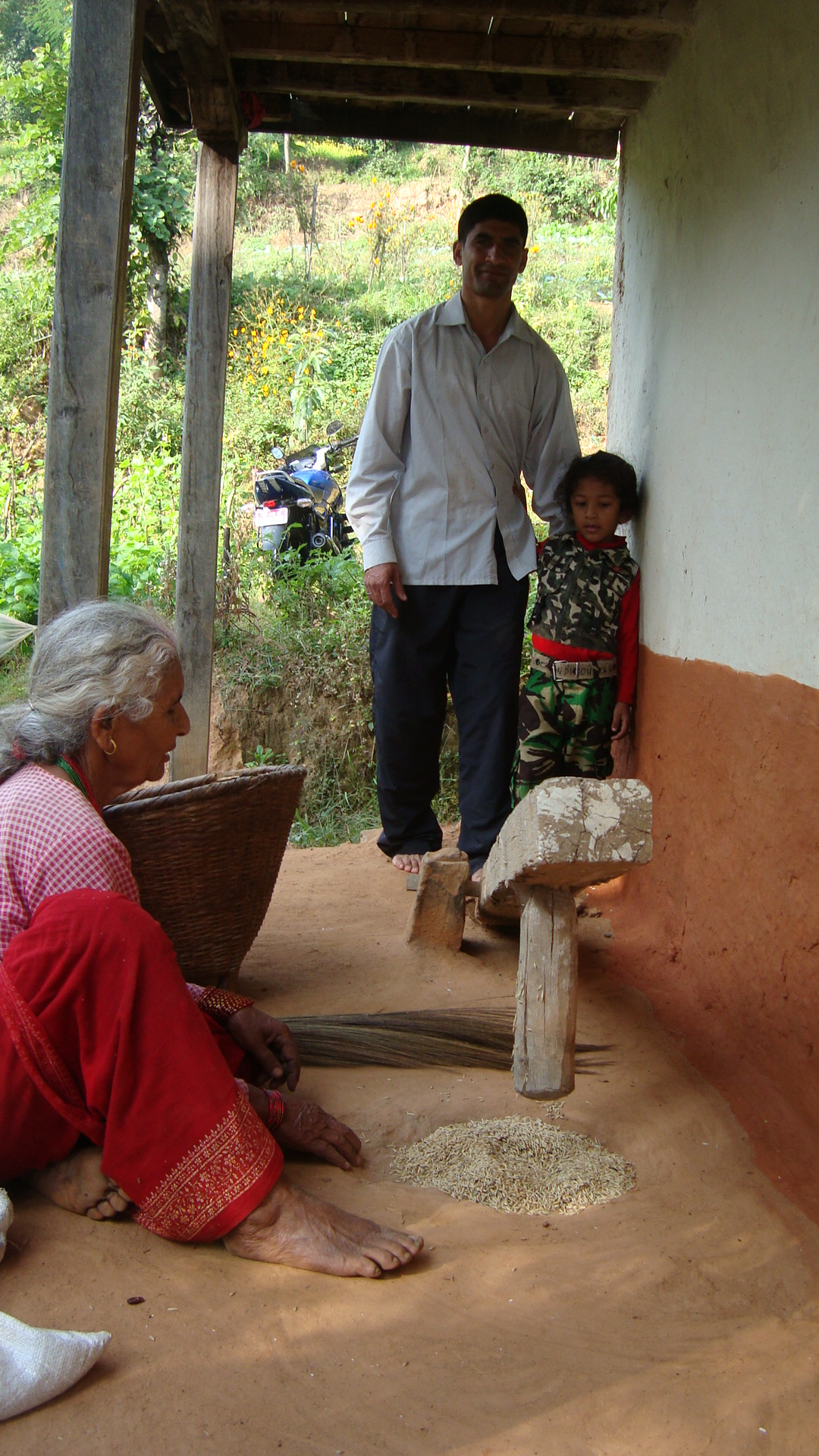 A simple machine used in Nepal.